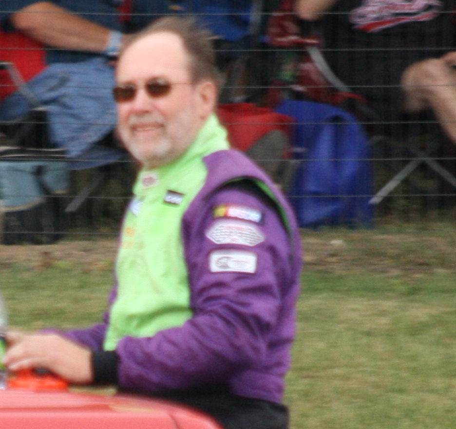 NASCAR driver Bill Prietzel during driver's introductions at the 2012 Sargento 200 Nationwide Series race at Road America.